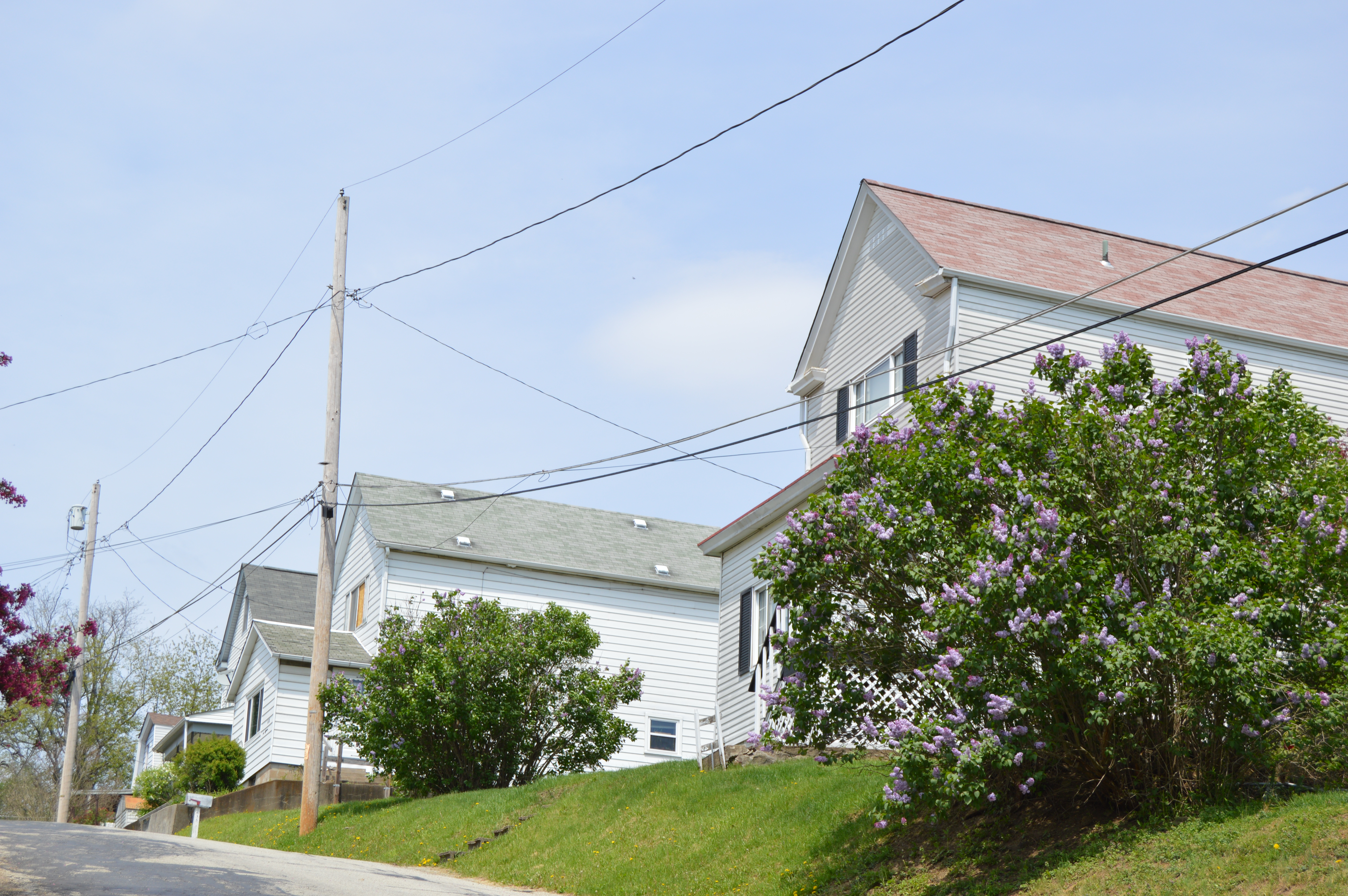 Houses on the eastern side of Beaver Avenue in Wilkins Township, Allegheny County, Pennsylvania, United States.